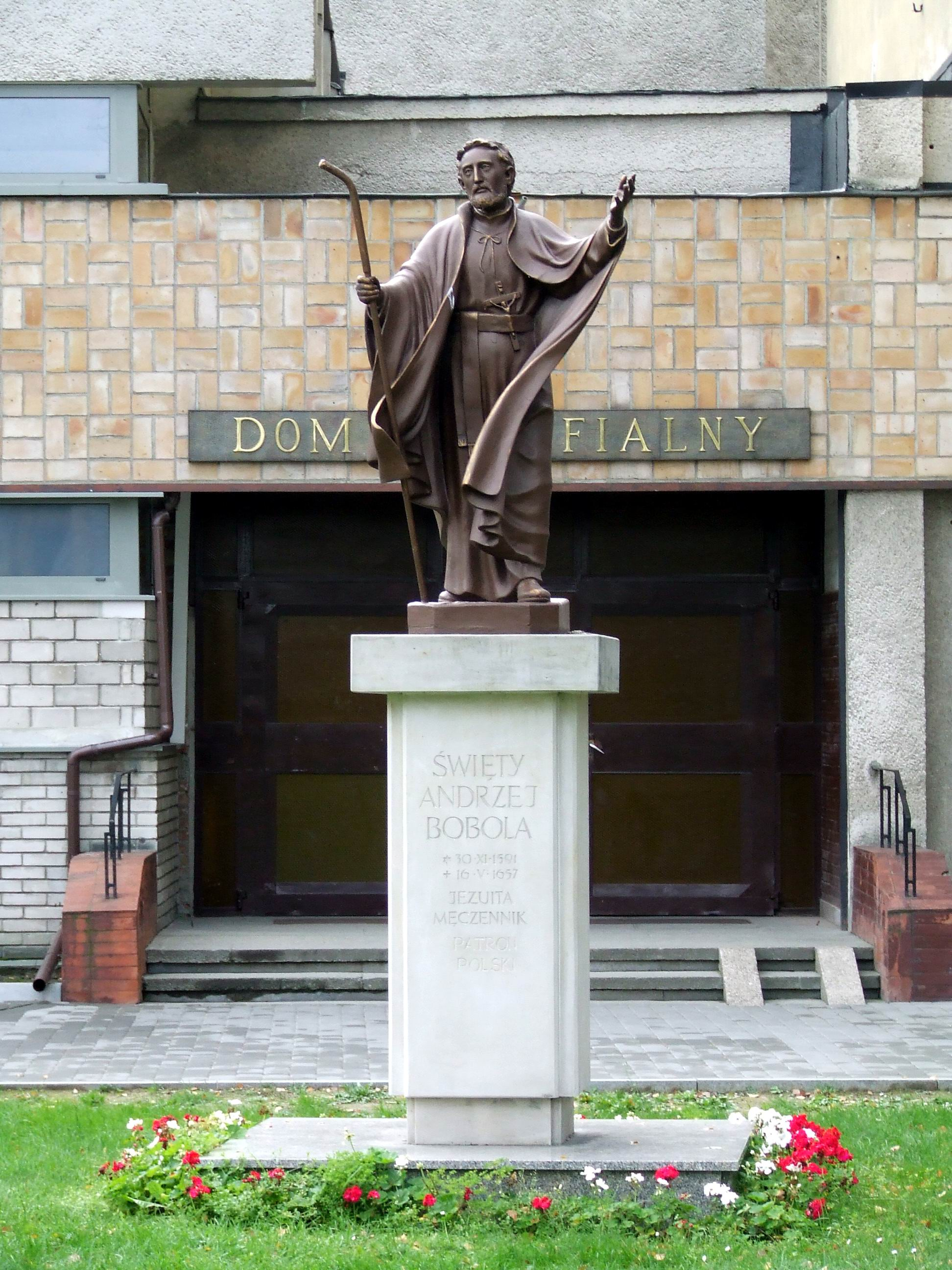 Andrzej Bobola monument outside sanctuary in Warsaw